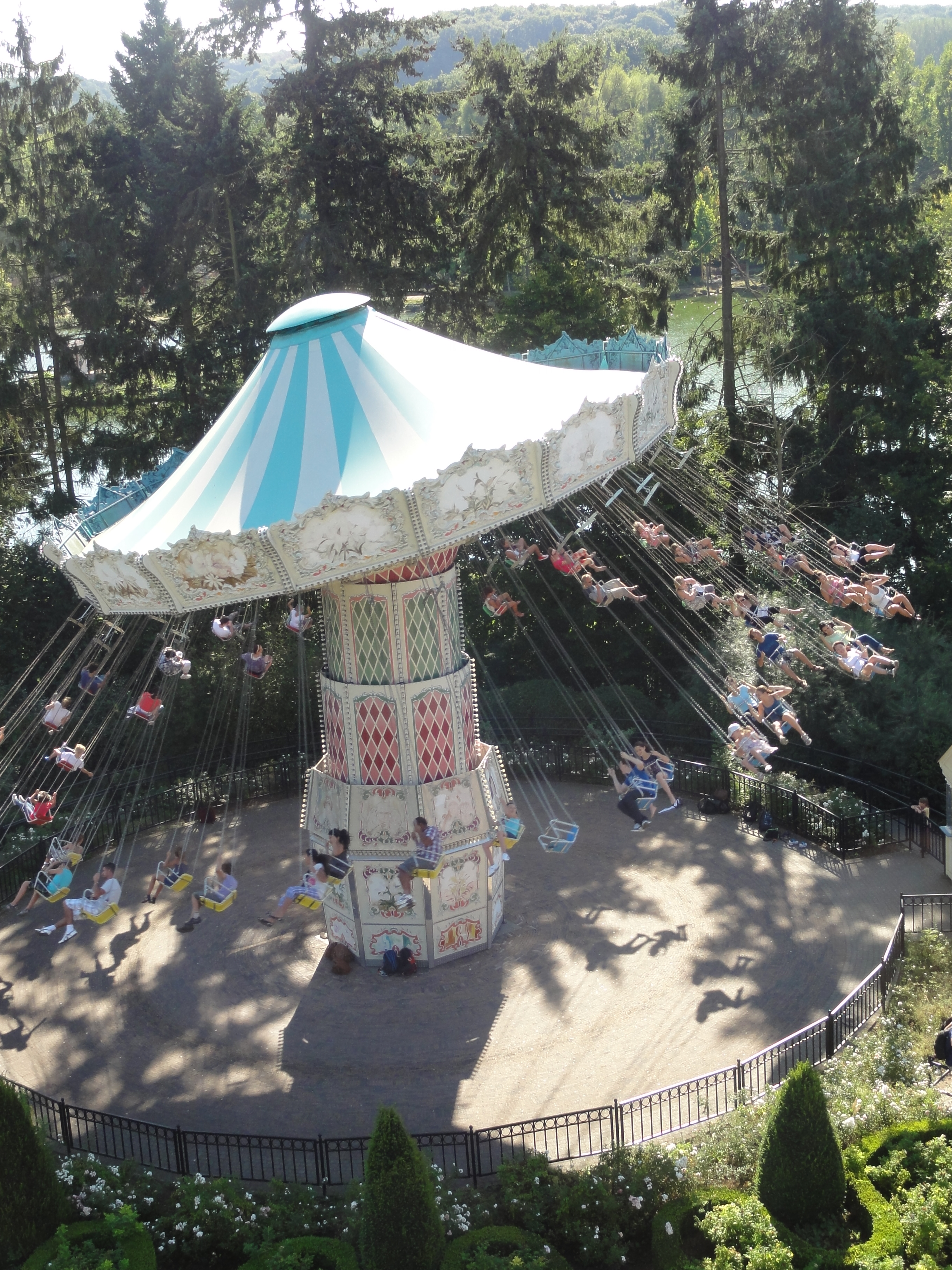 Wave Swinger, Walibi Belgium, Belgium.